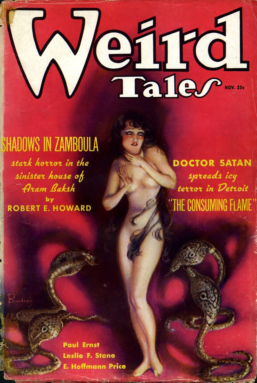 Cover of Weird Tales (November 1935): The feature story is Robert E. Howard's "Shadows in Zamboula".